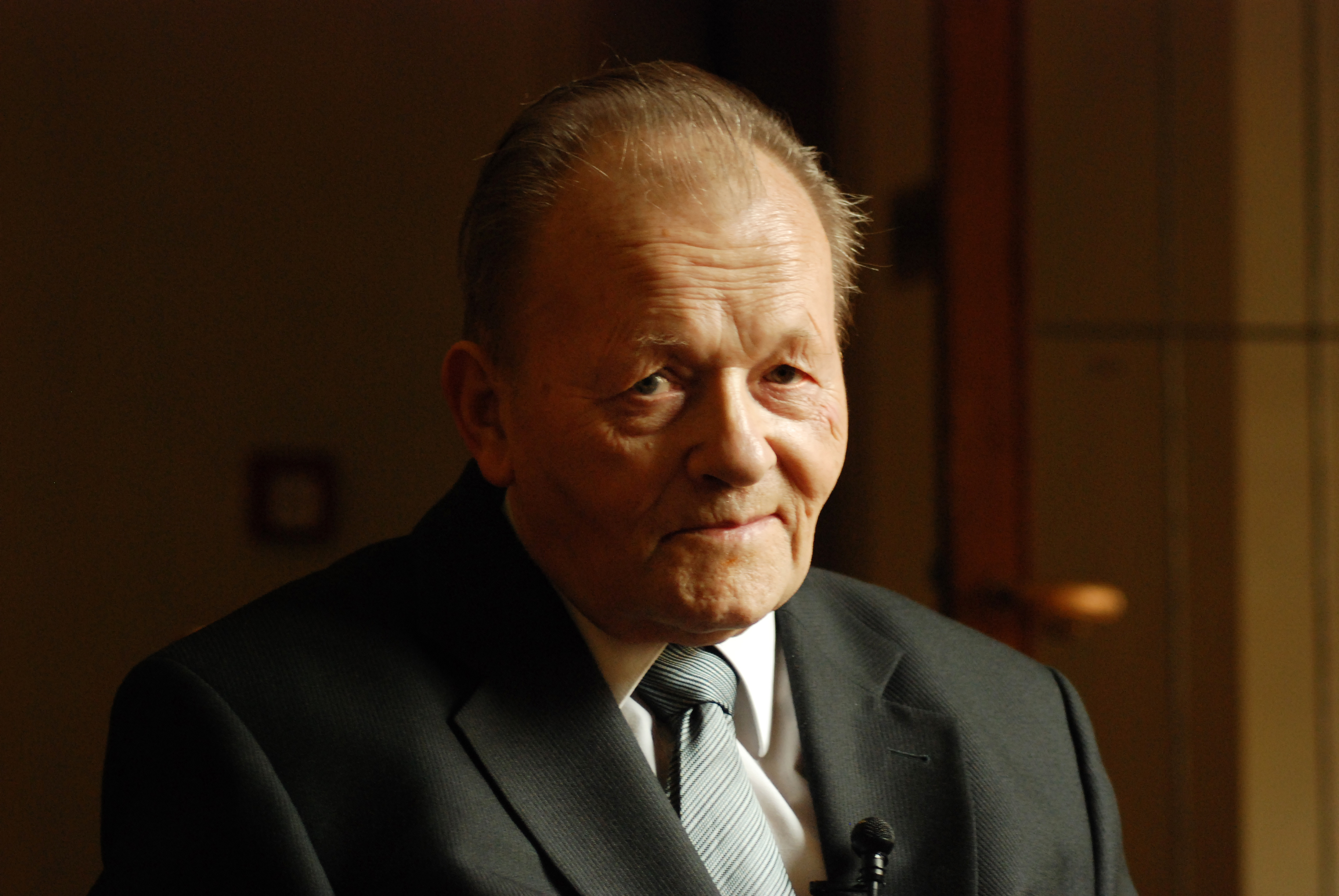 Antonín Holý (1 September 1936 – 16 July 2012) was a pioneering Czech scientist. He specialised in the field of chemistry and cooperated on the development of important antiretroviral drugs used in the treatment of HIV and hepatitis B.